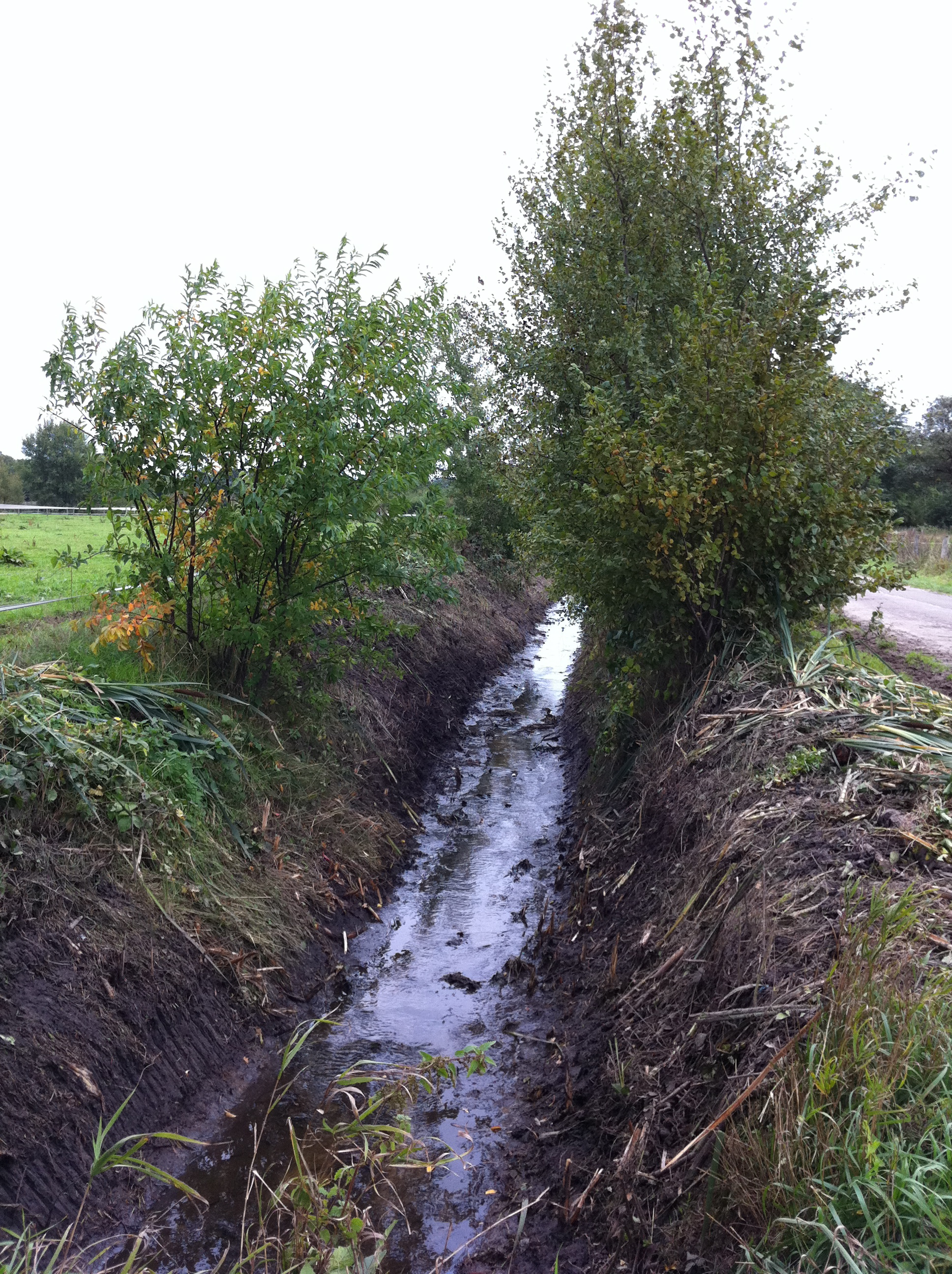 Norderstedt (Germany): The river Garstedter Graben in the town of Garstedt